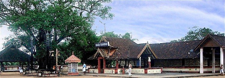 Pattazhy Devi Temple